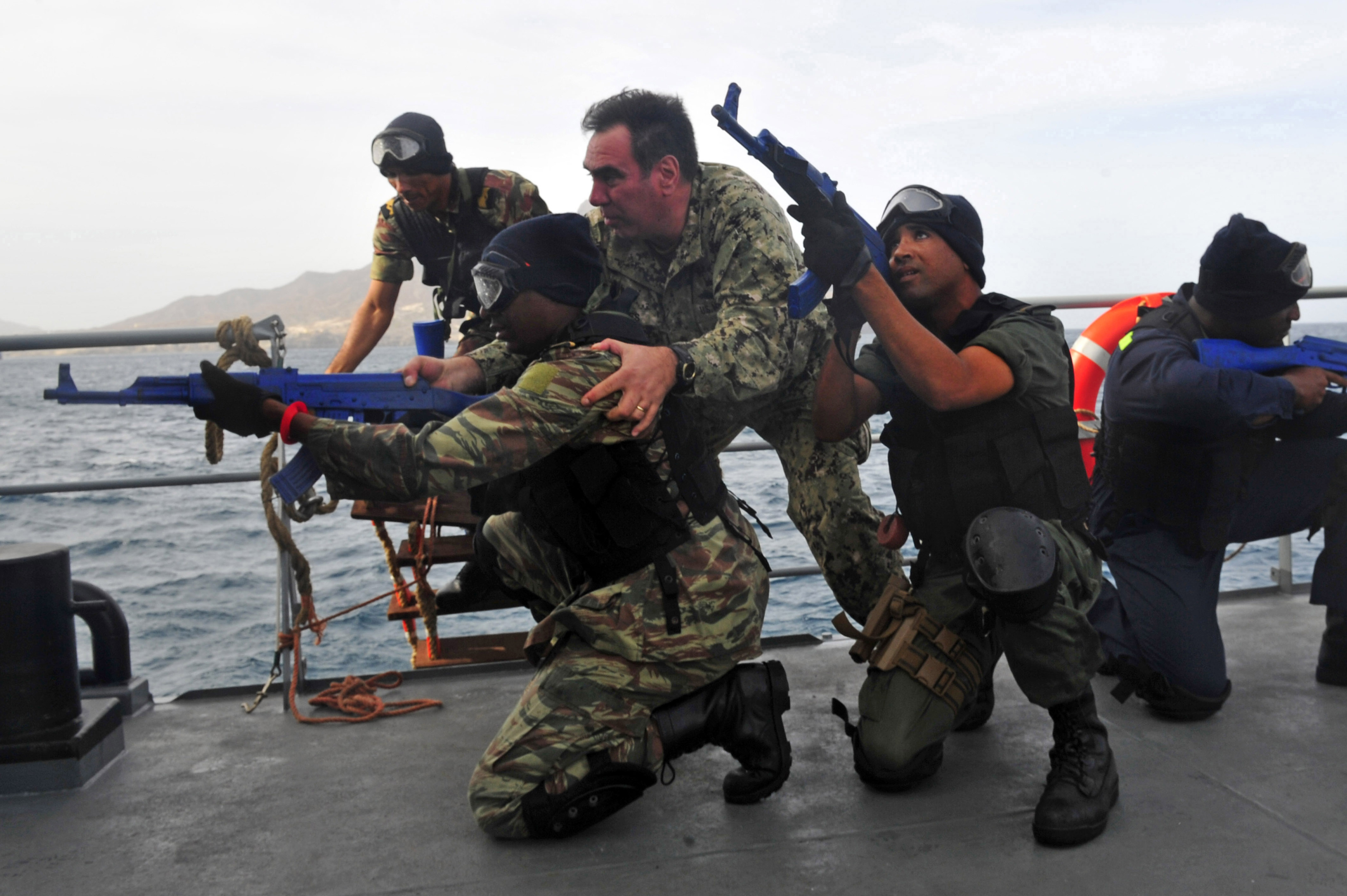 MINDELO, Cape Verde (Jan. 14, 2013) Chief Master-at-Arms Joe Nunes, center, a maritime civil affairs instructor, guides a member of the Cape Verdian coast guard into proper formation during boarding team training aboard the Cape Verdian patrol boat NP Guardian (P511) during Africa Partnership Station (APS). APS is an international security cooperation initiative, facilitated by Commander, U.S. Naval Forces Europe-Africa, aimed at strengthening global maritime partnerships through training and collaborative activities in order to improve maritime safety and security in Africa. (U.S. Navy photo by Mass Communication Specialist 1st Class Felicito Rustique/Released) 130114-N-IZ292-247 Join the conversation navylive.dodlive.mil